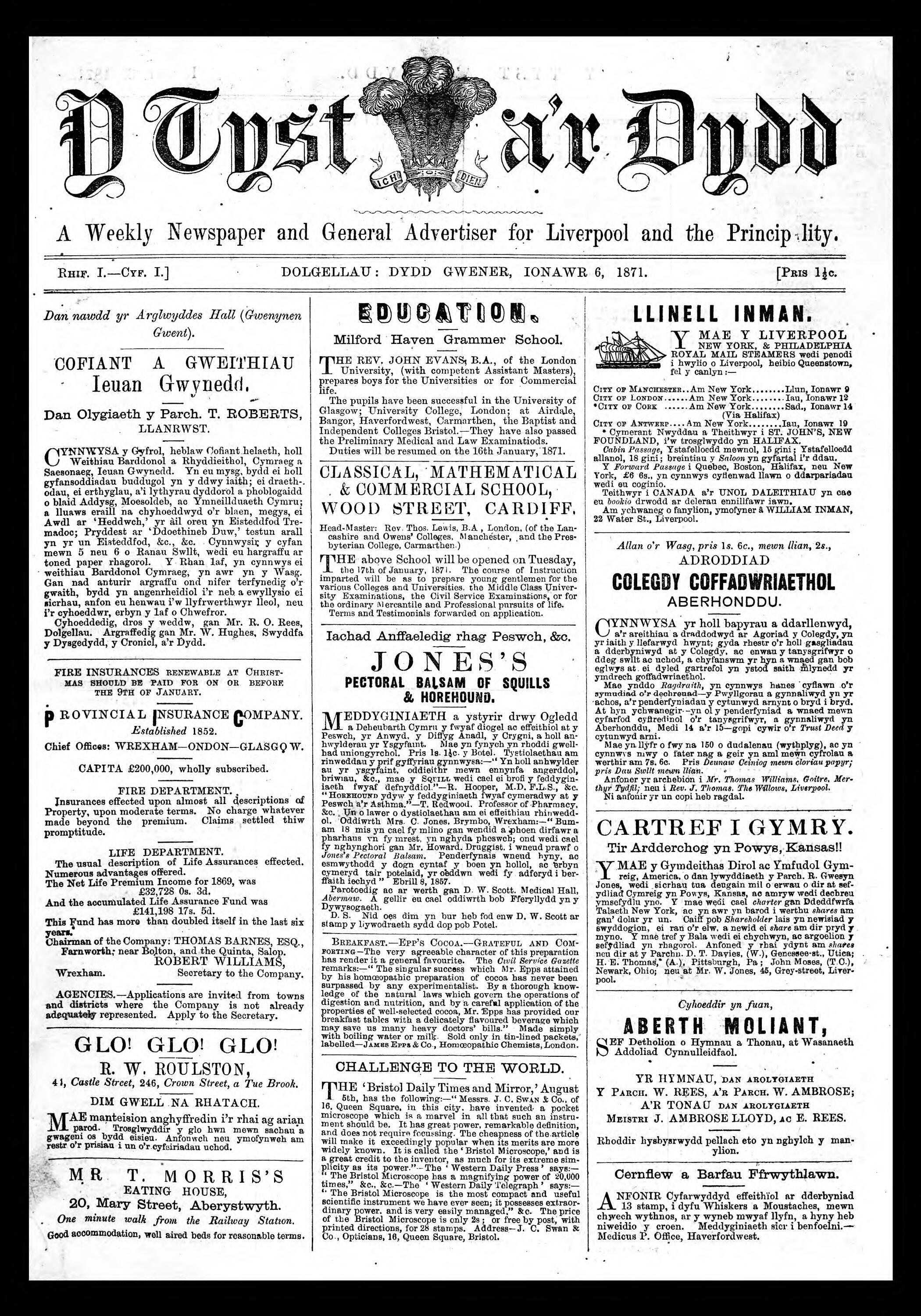 Front page of the earliest surviving copy of the Welsh newspaper Y Tyst a'r DyddCymraeg: Tudalen flaen y copi cynharaf sydd yn bodoli o'r papur newydd Cymraeg Y Tyst a'r Dydd